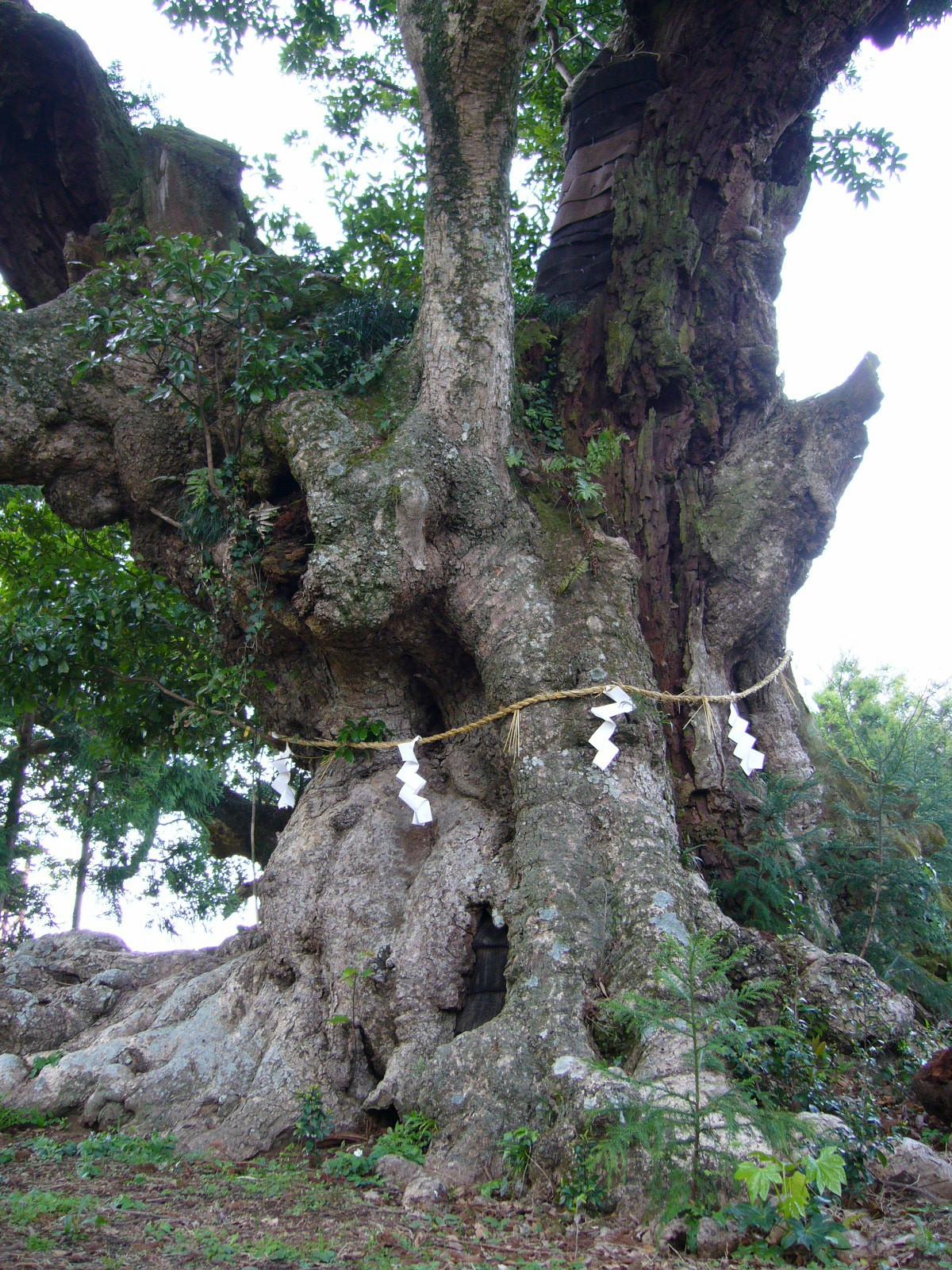 Persea thunbergii (syn. Machilus thunbergii), huma, Katori city, Chiba, Japan